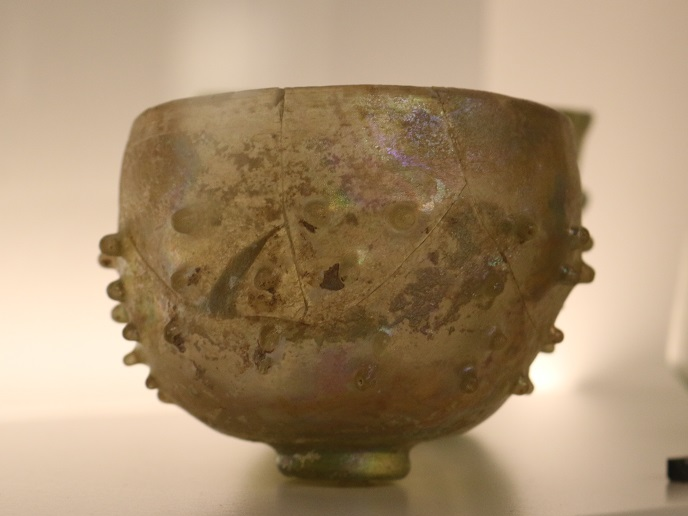 Persian Glass - Sasanian era, 7th century AD - Photo: Persian Dutch Network